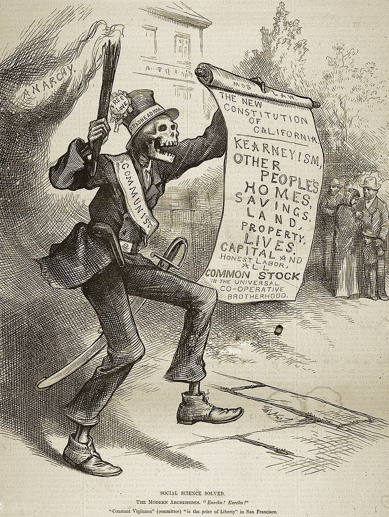 Cartoon by Thomas Nast criticizing Kearnyism